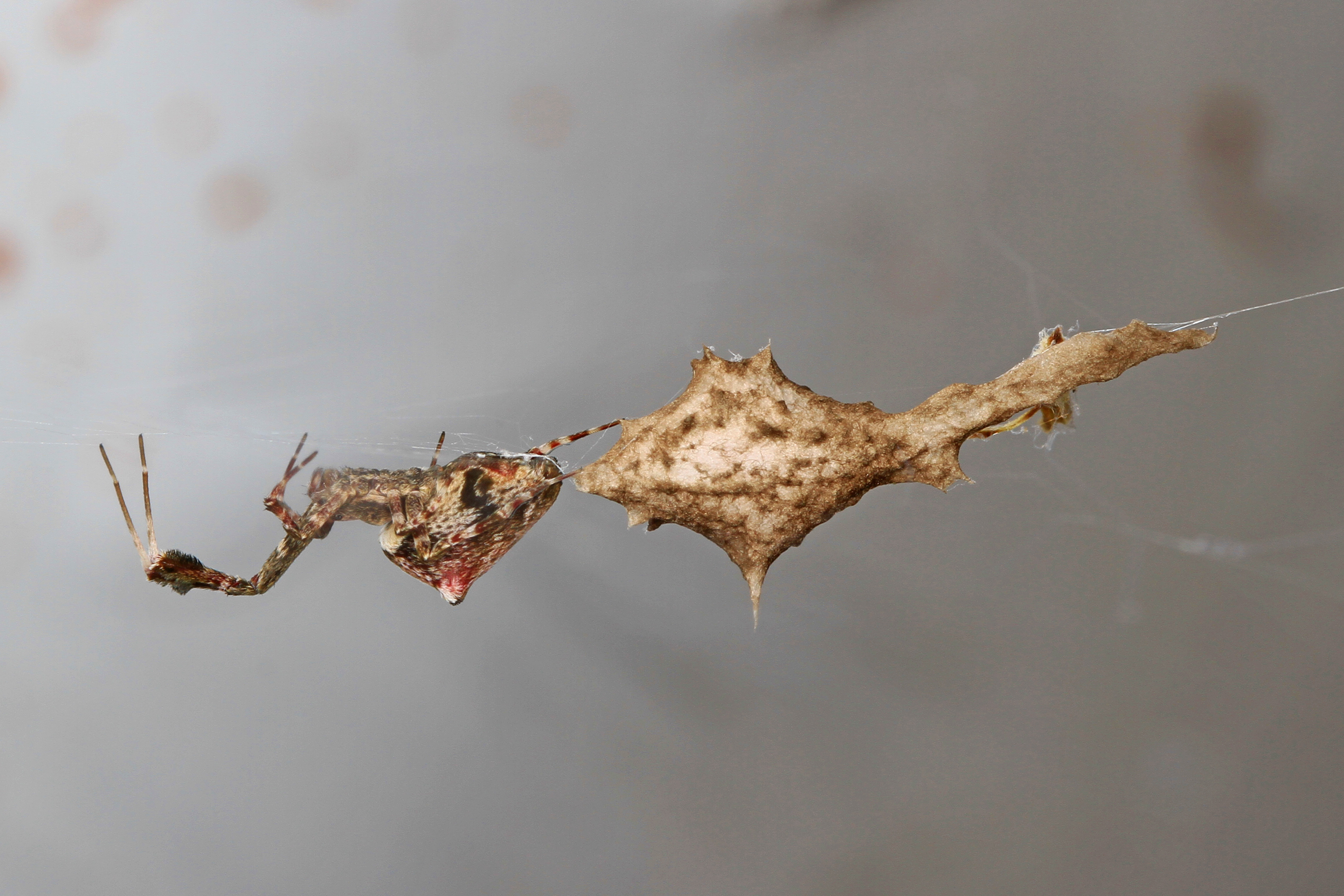 Day 153 - Feather-legged Orbweaver - Uloborus glomosus with egg sac, Woodbridge, Virginia